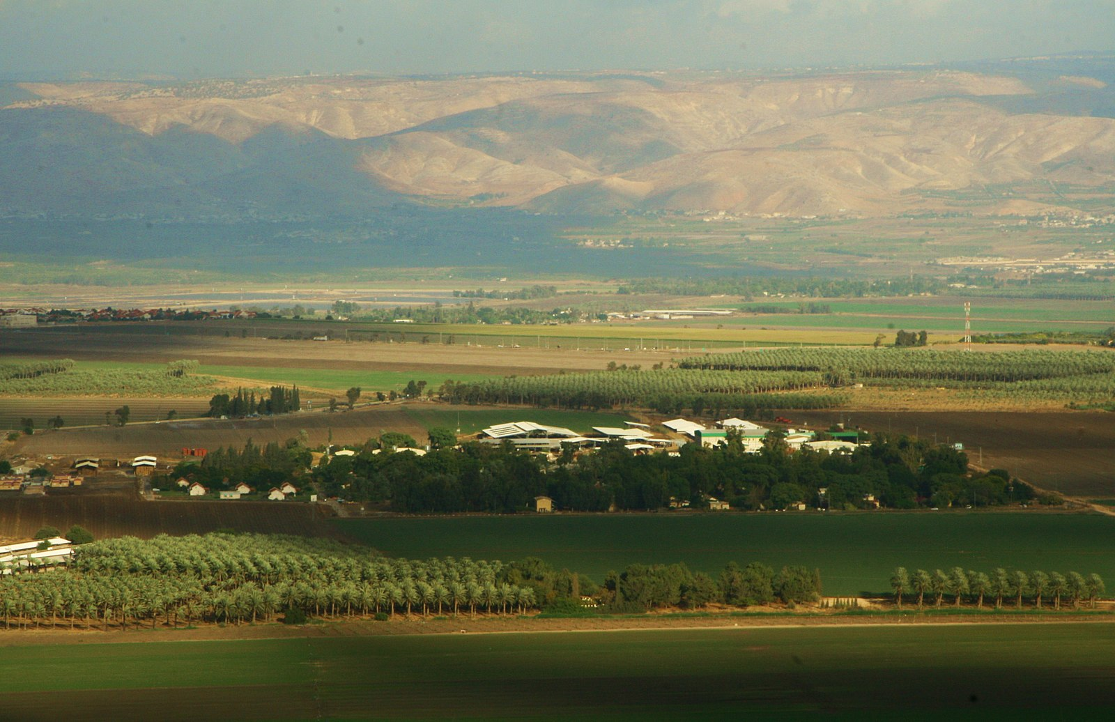 A picture of kibbutz Shluhot